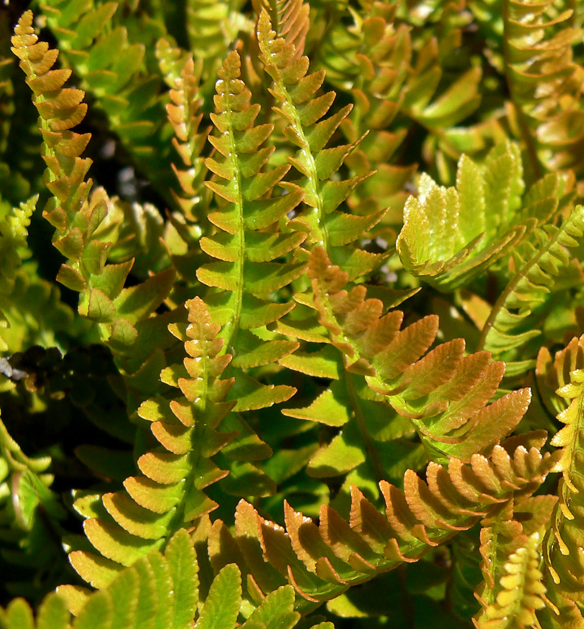 Blechnum microphyllum at the University of California Botanical Garden, Berkeley, California